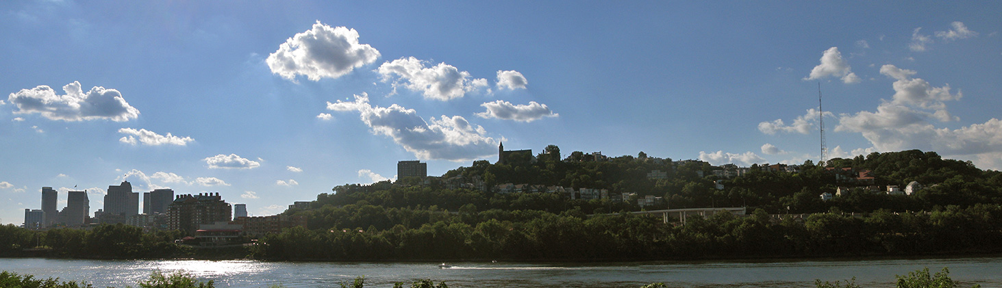 A pseudo-panoramic of Mount Adams from Bellevue, KY with downtown on the left.